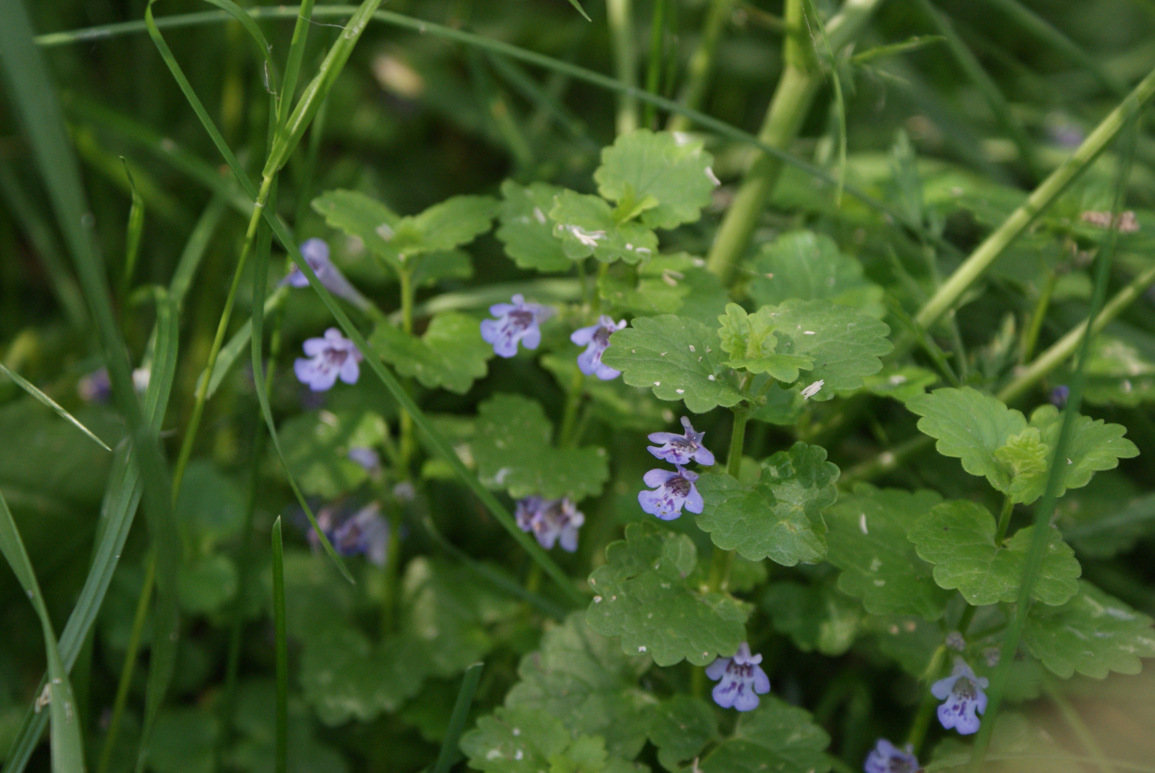 Glechoma hederacea (Belarus)